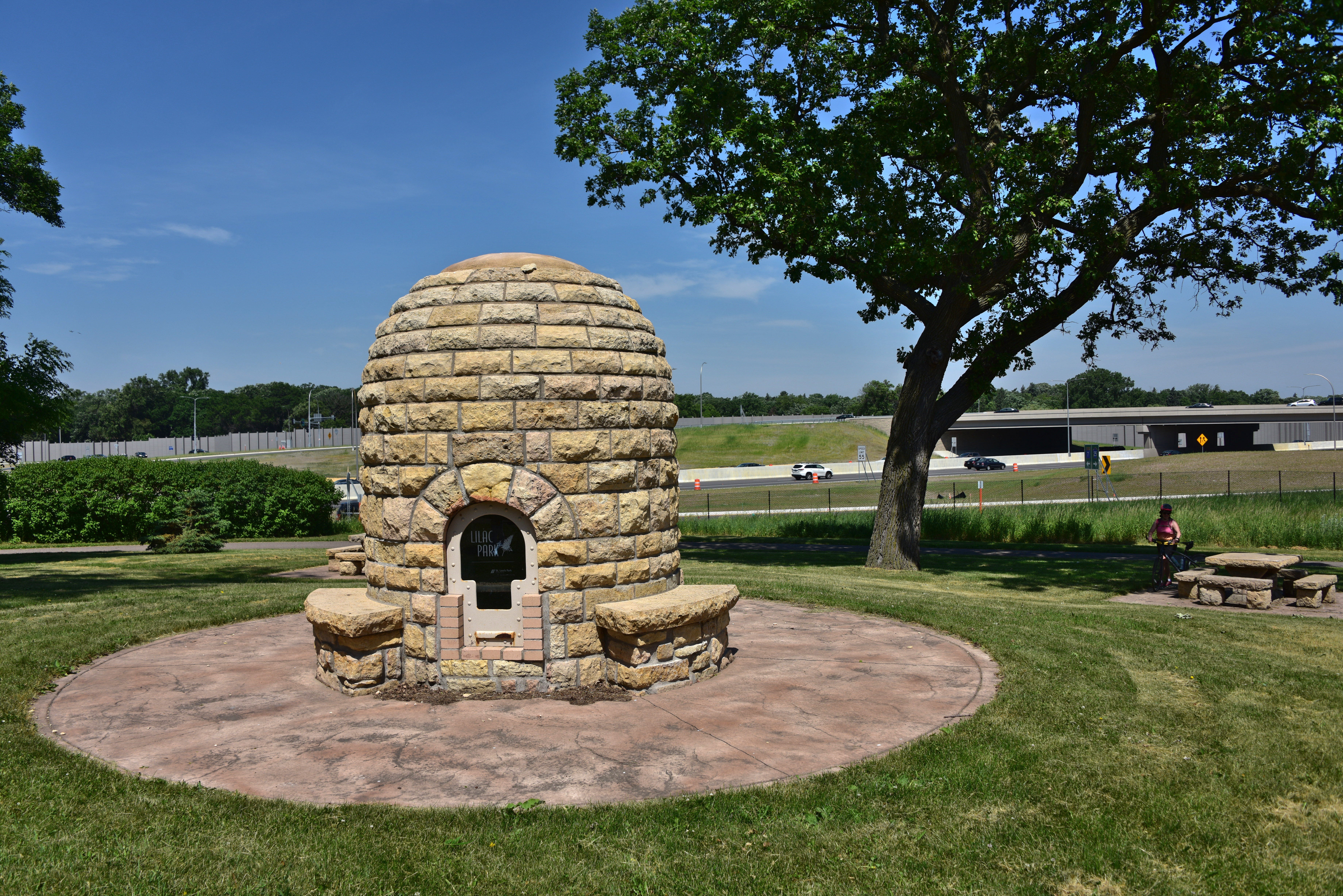 This park in St. Louis Park contains grills and picnic tables built by the WPA as part of the old Belt Line highway. Recently, during a widening of T.H. 100, they were moved further away from the highway and made the centerpiece of a new park.